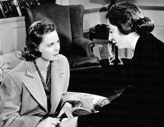 Promotional still for the 1944 short film, Reward Unlimited, dramatizing the need for volunteer military nurses for the U. S. Cadet Nurse Corps during World War II. Subjects of the photograph are Dorothy McGuire and Alina MacMahon.